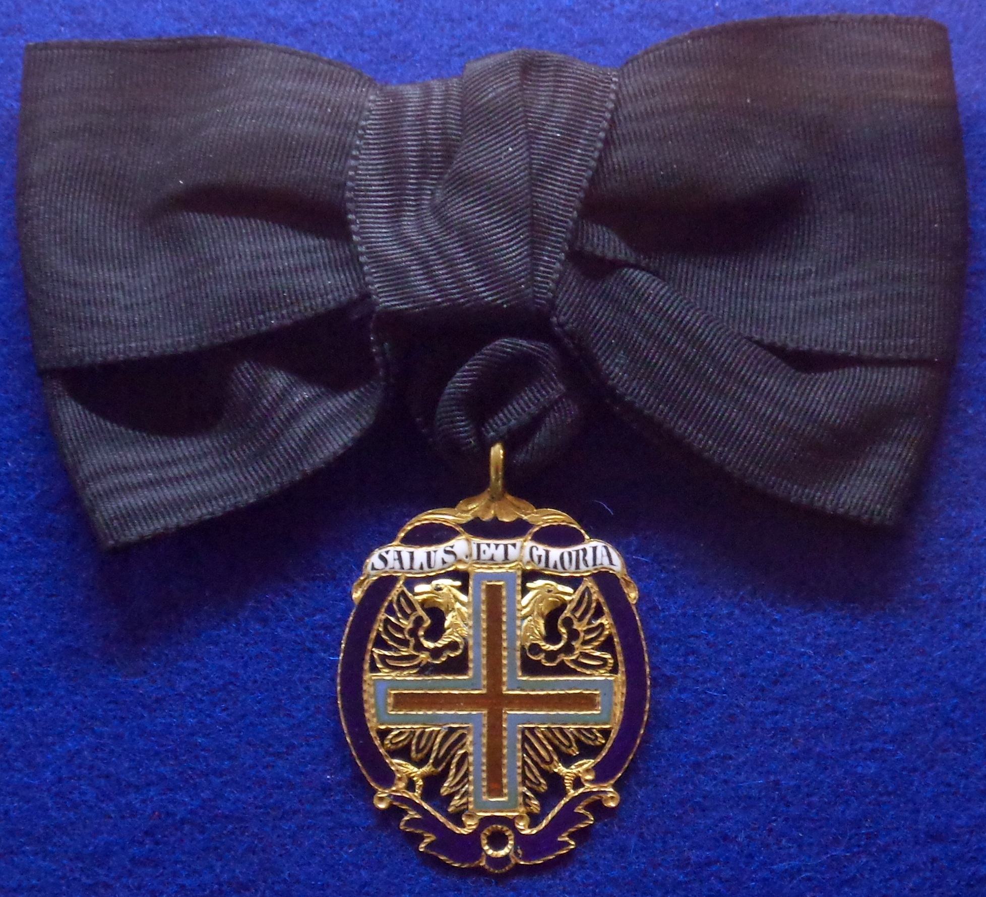 Order of the Starry Cross, badge, c.1850. Austria. The exhibition of the Tallinn Museum of Orders of Knighthood, Estonia.